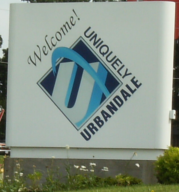 Urbandale, Iowa, welcome sign